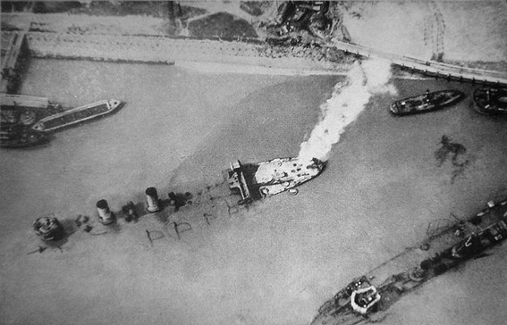 Wrecks of British cruisers after the Zeebrugge raid, April 1918. Wrecks of HMS Intrepid, and HMS Iphigenia blocking the mouth of the Bruges Ship Canal at Zeebrugge, 24 October 1918. Compare with